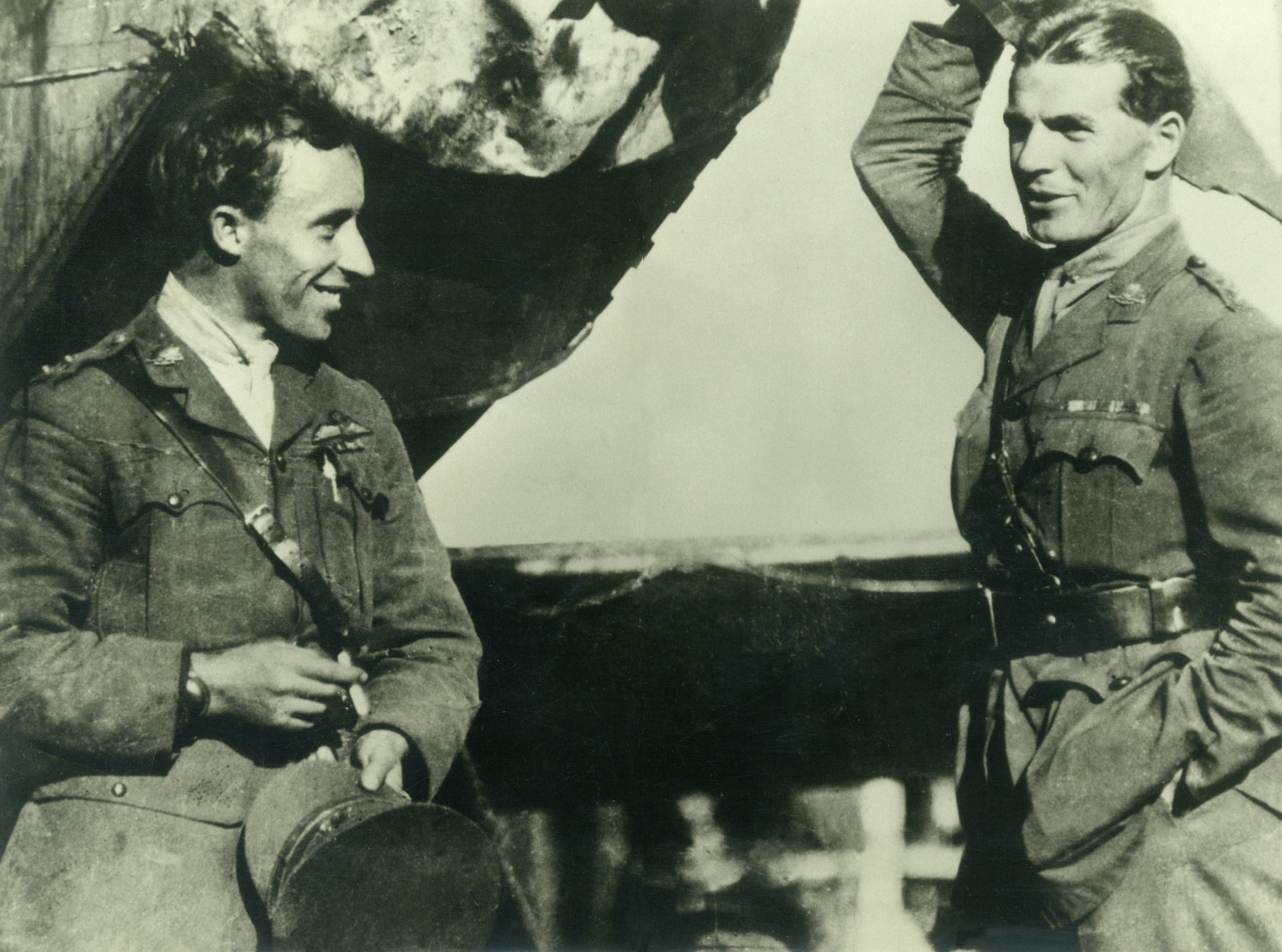 Ray Parer (left) and John McIntosh (right) in front of their damaged PD Airco de Havilland DH.9 plane at Flemington Racecourse, Melbourne on 31 August 1920. After they arrived in the Federal capital to meet Australian Prime Minister Billy Hughes after their flight from England to Australia.